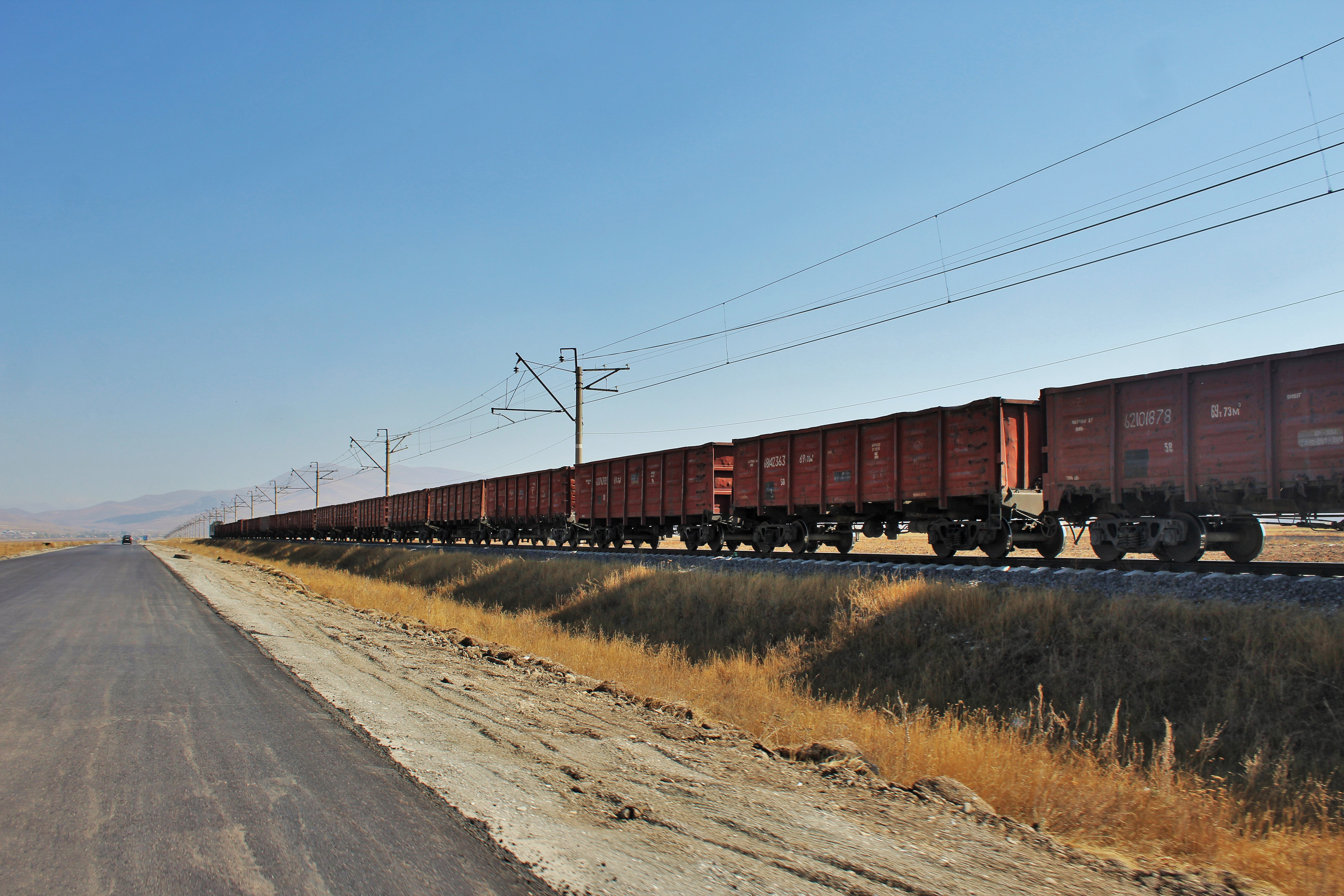 Train in the Gegharkunik province of Armenia